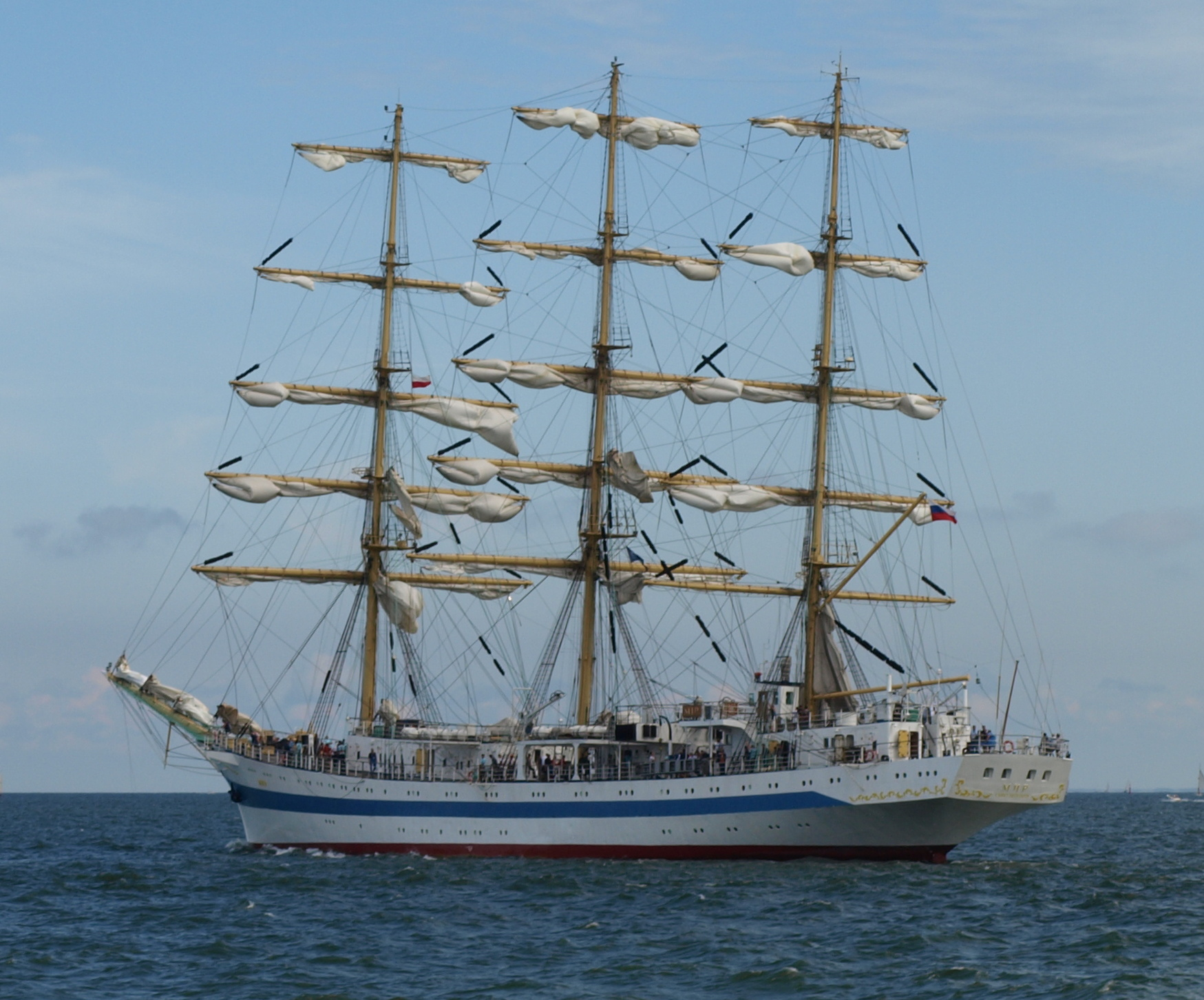 STS Mir during the final parade of Tall Ships' Races, Gdynia, 2009